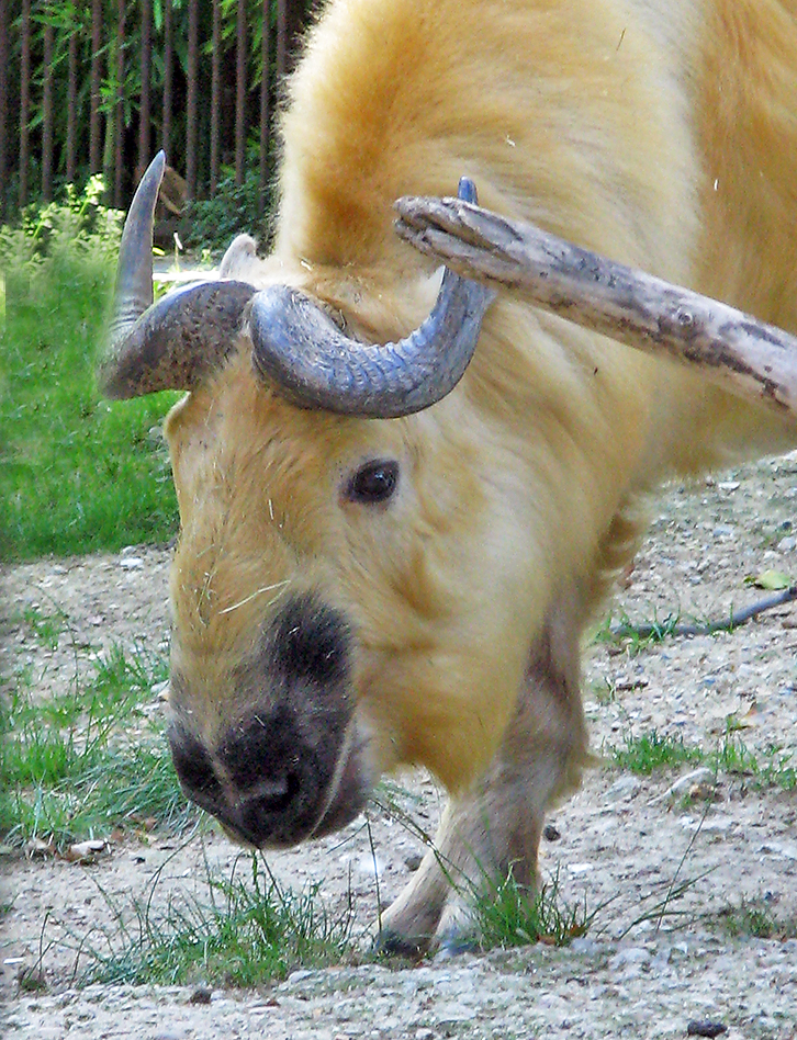 Budorcas taxicolor. A Takin at the Paris Menagerie - a small zoo in Paris